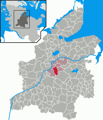 Locator maps of municipalities in Schleswig-Holstein - District Rendsburg-Eckernförde